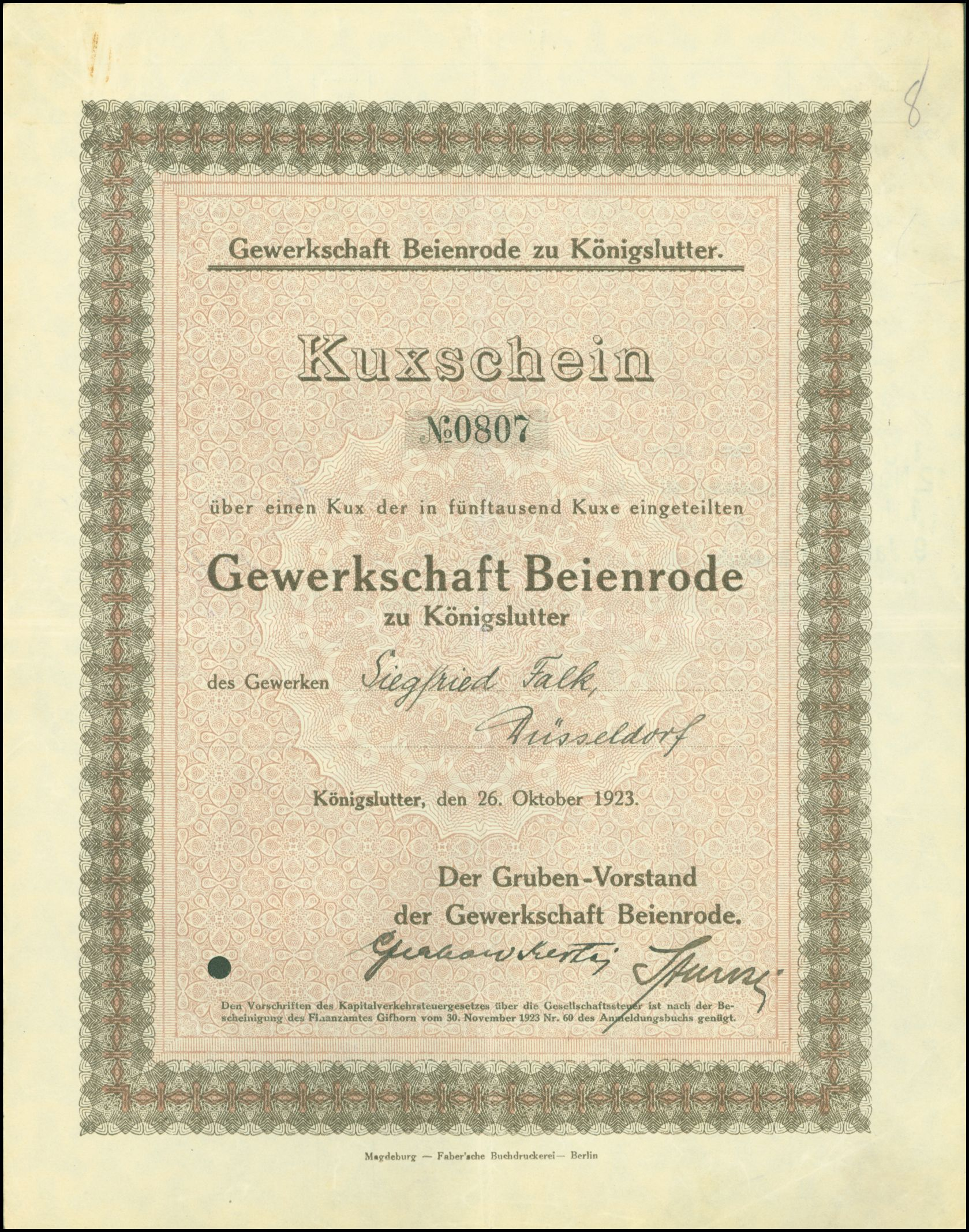 Mining share certificate of the Gewerkschaft Beienrode, issued 26. October 1923